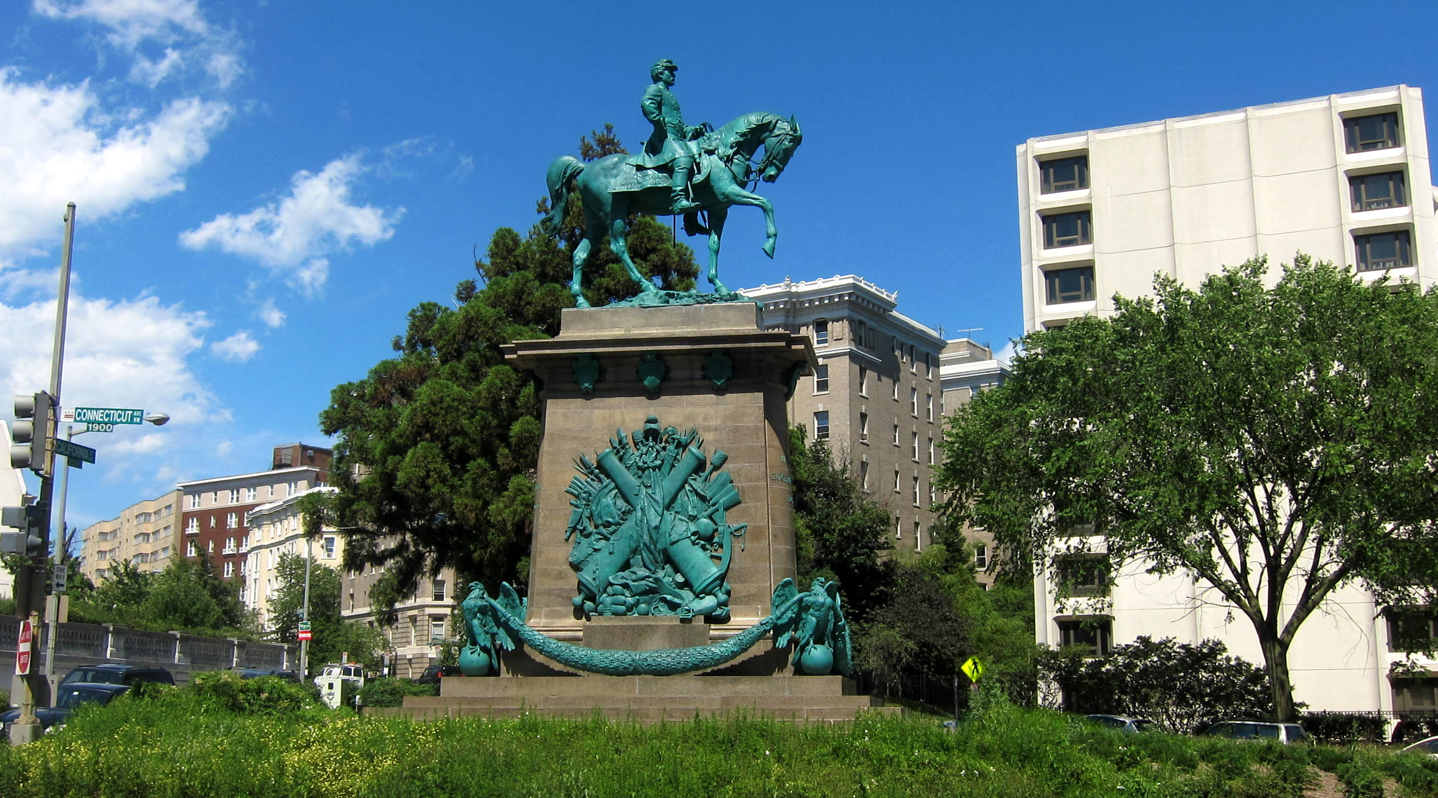 The George B. McClellan Memorial located at the intersection of California Street, Connecticut Avenue, and Kalorama Road, N.W., in the Kalorama neighborhood of Washington, D.C. The bronze equestrian was sculpted in 1907 by Frederick William MacMonnies. The McClellan Memorial is designated as a contributing property to the Kalorama Triangle Historic District, listed on the National Register of Historic Places in 1987.